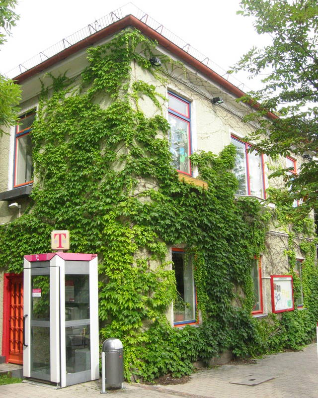 Altes Rathaus Gauting